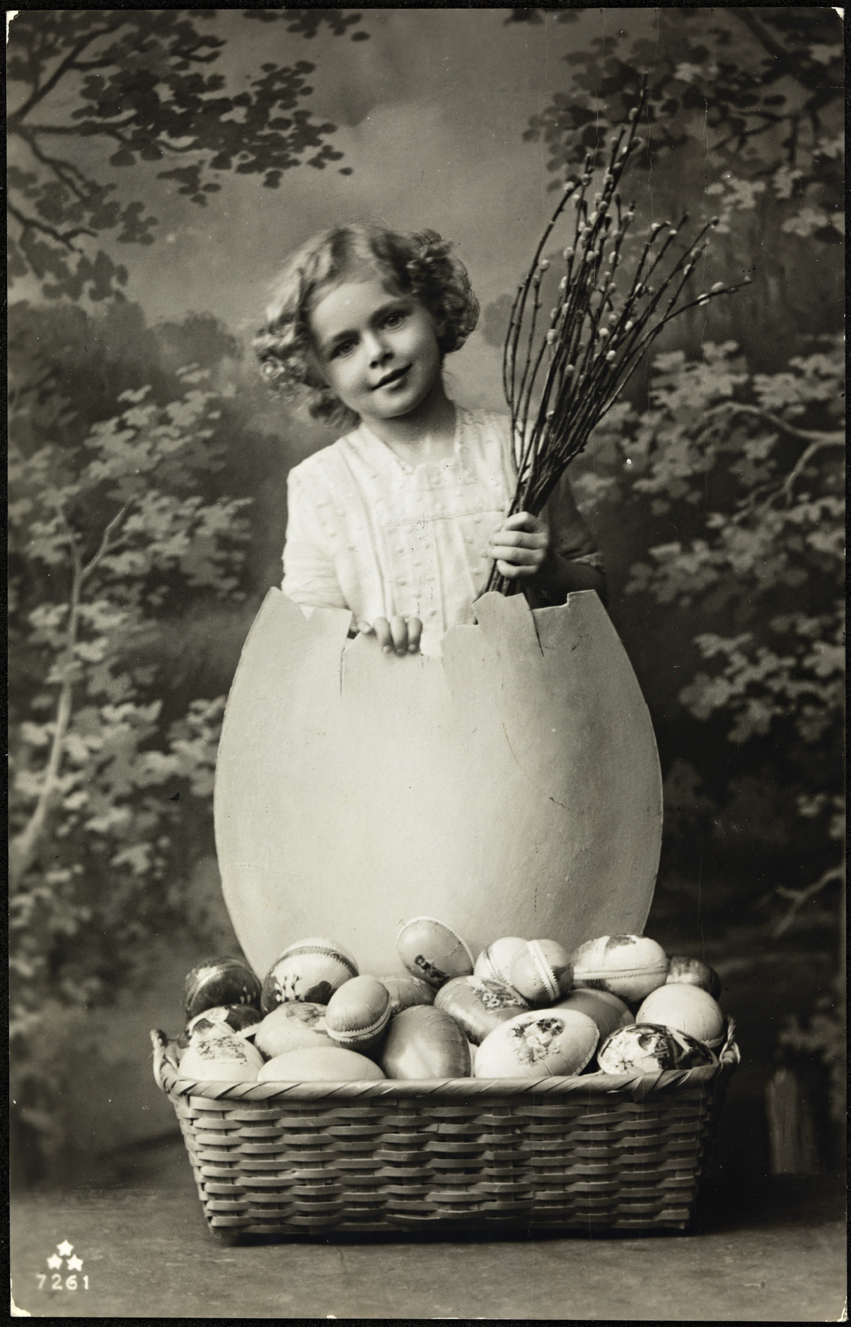 Tittel / Title: Påskekort Motiv / Motif: Fotografisk postkort. Dato / Date: ca 1916 Fotograf / Photographer: ukjent / unknown Utgiver / Publisher: ukjent / unknown Eier / Owner Institution: Nasjonalbiblioteket / National Library of Norway Lenke / Link: Bildesignatur / Image Number: blds_04805